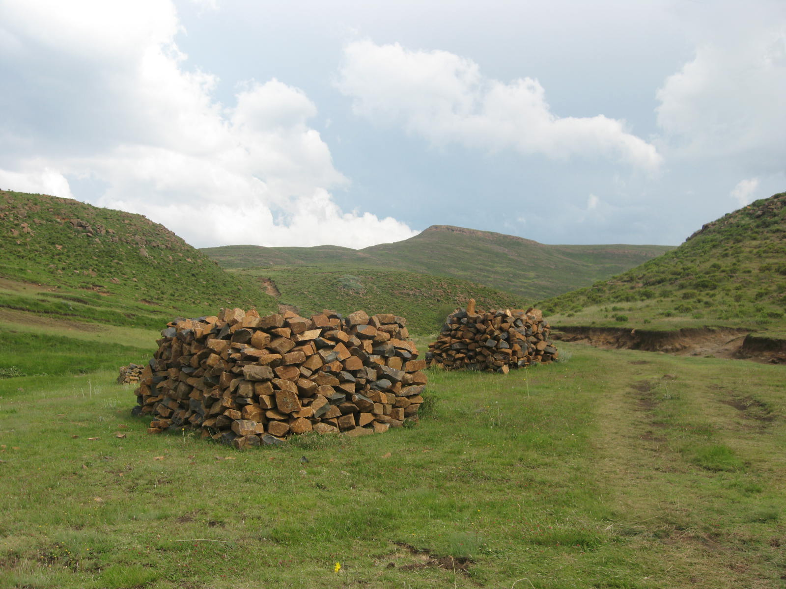 Trip to Mt Moroosi